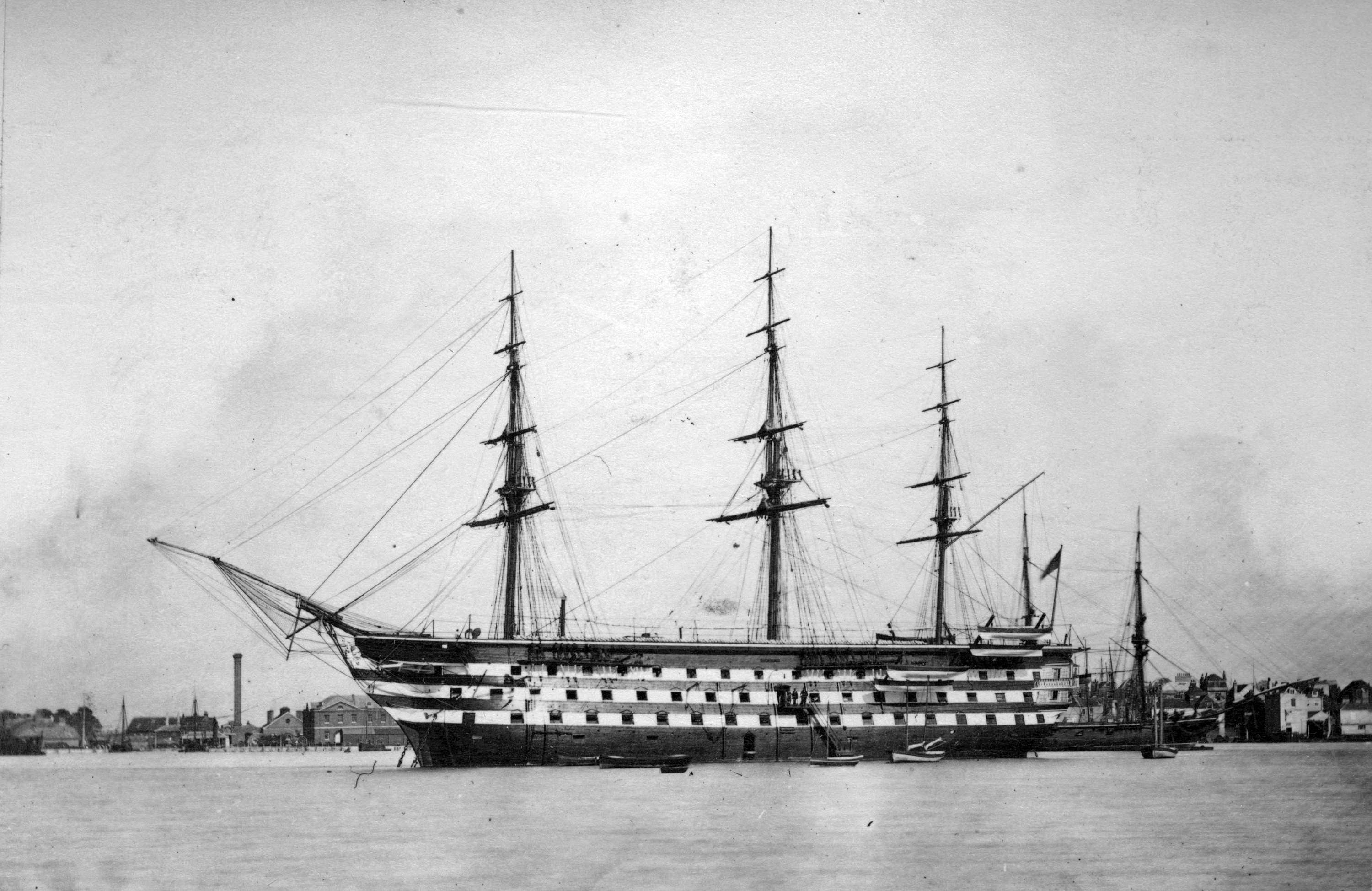 HMS Britannia. Comment : Believed to be the first HMS Britannia training ship, at Portsmouth.